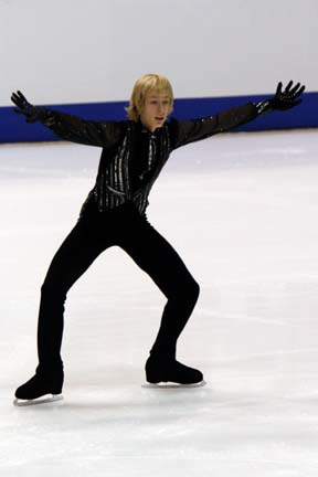 2007 Junior Grand Prix at Lake Placid - Franz Streubel